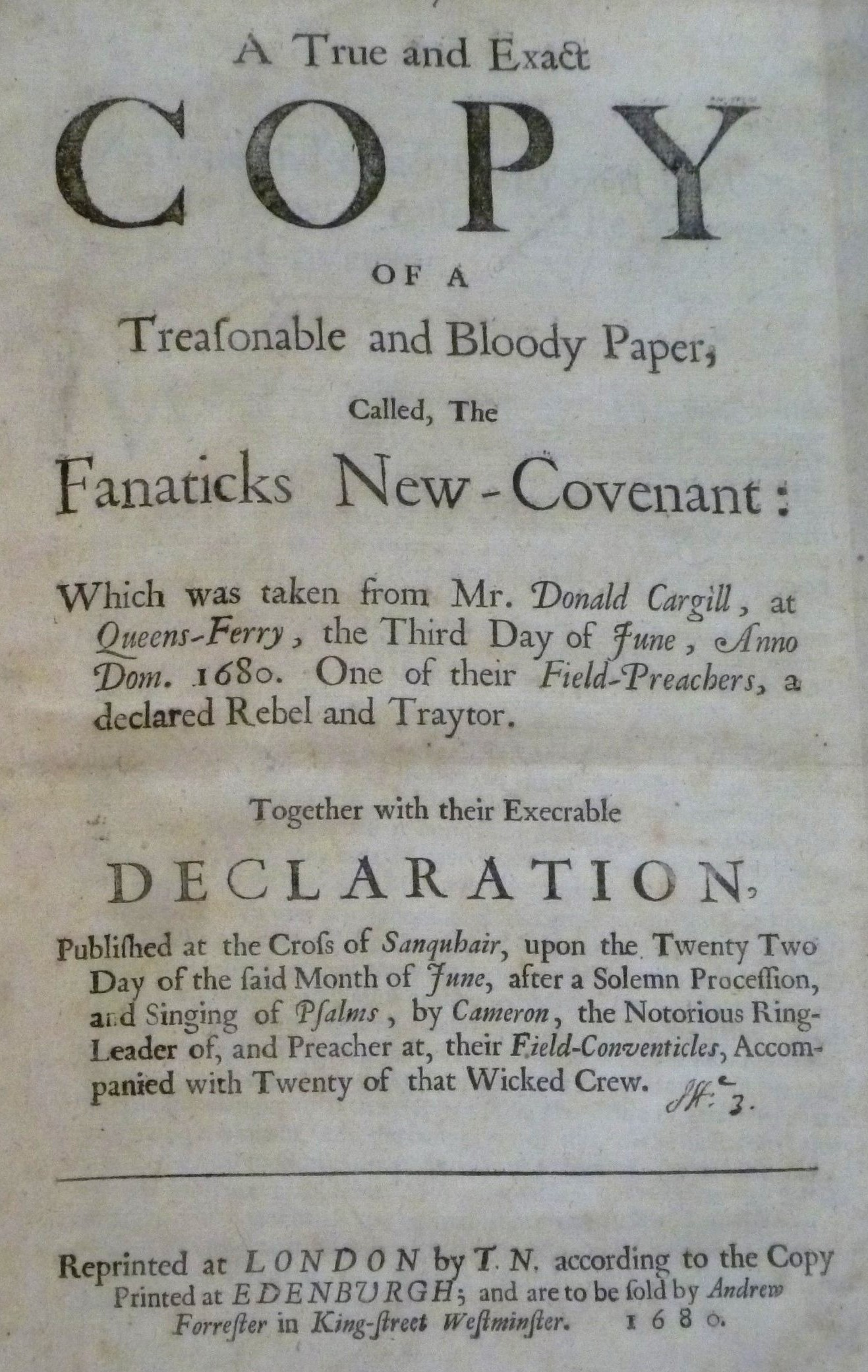 Title page denouncing the manifestos of Cargill and the Cameronians. The condemnatory tone may have been a way of circumventing the censorship of the Lord Chamberlain and justifying the publication of seditious content.